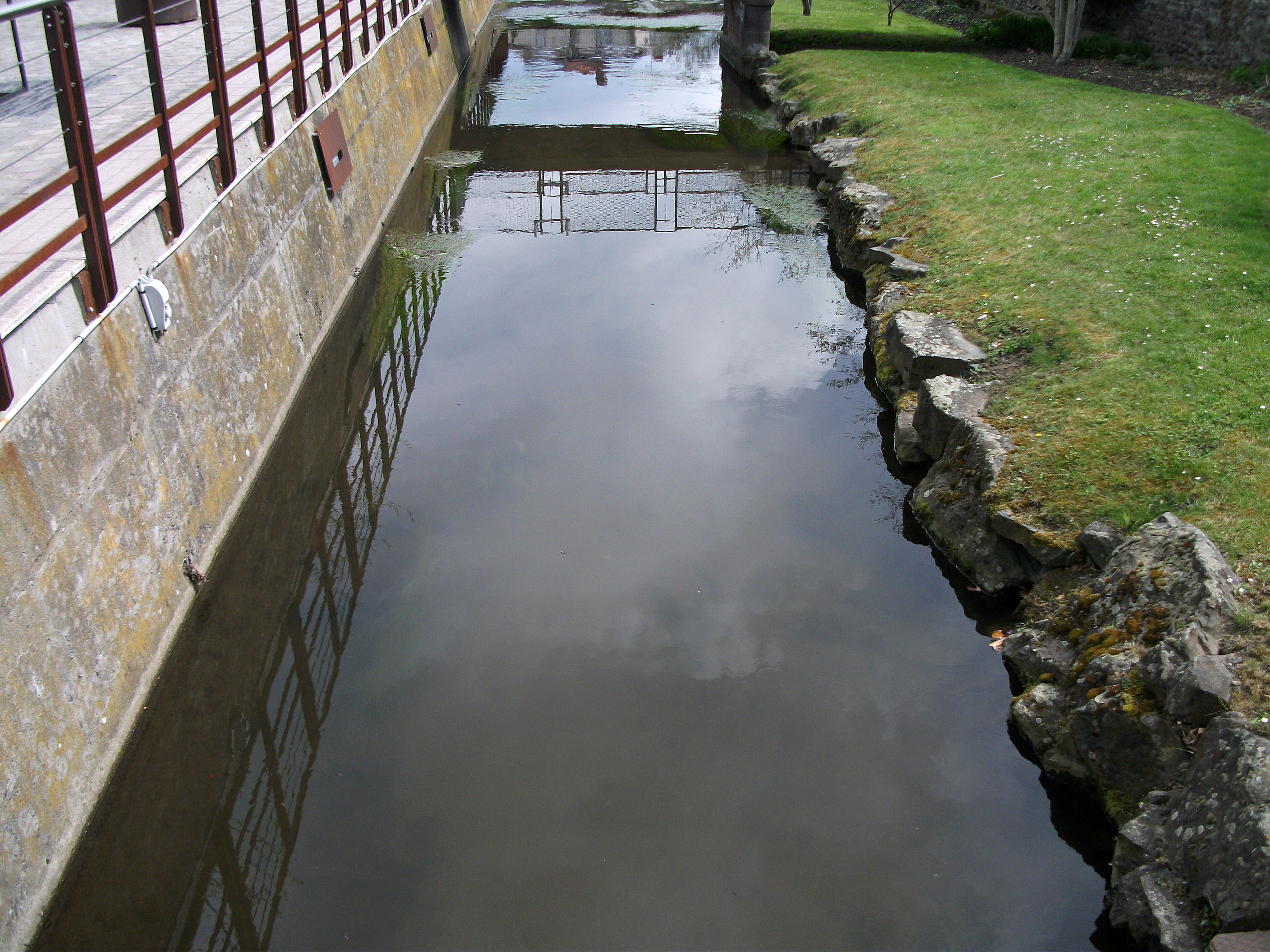 Bédat river near cours des Perches in Cébazat, Puy-de-Dôme, Auvergne, France.